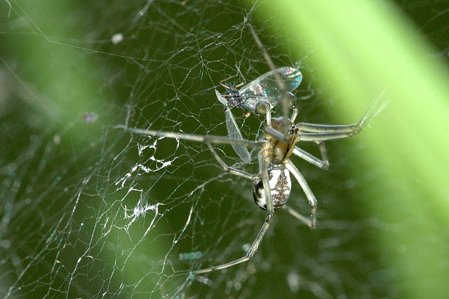 female Linyphia triangularis from Commanster, Belgian High Ardennes .